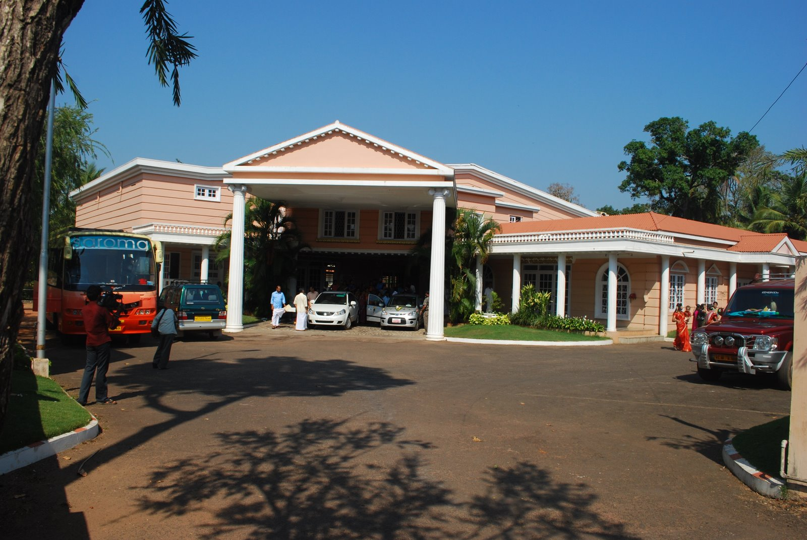 Sadhoo Kalyana Mandapam at Thana, Kannur